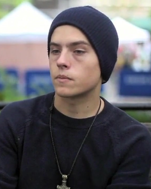 Independent news blog NYU Local talks to Dylan Sprouse who was a New York University student at that time.